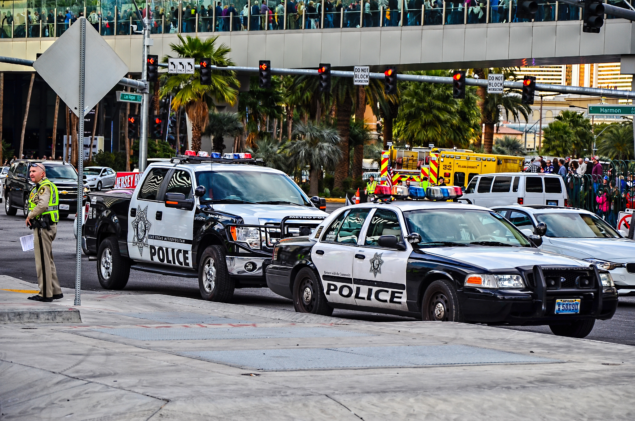 Nascar Victory Lap 2015 TDelCoro December 3, 2015